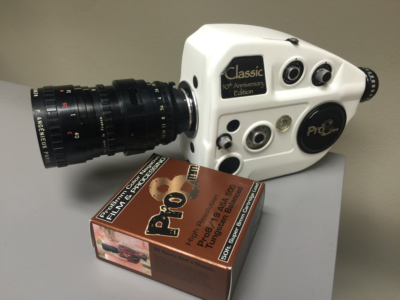 Super 8 Film Camera Classic Pro